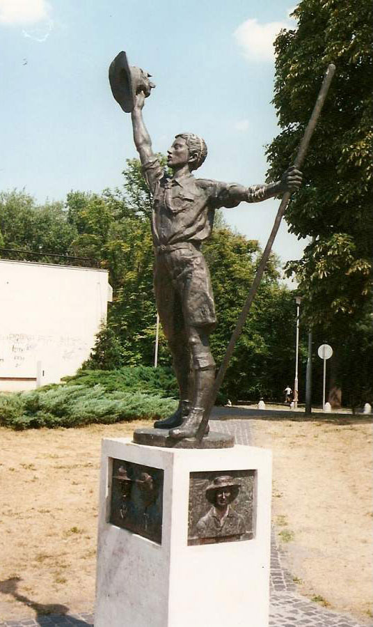 A statue of a Boy Scout was erected in Gödöllõ, Hungary on the tenth anniversary of the 1933 World Jamboree. The original, by sculptor Lõrinc Siklôdy, was located across from the Guard Barracks in Gödöllõ Park until 1948, when Communist forces, after liberating the country from Germany, occupied it and suppressed Scouting. In 1994, after democracy and Scouting was reestablished in Hungary, the community moved to put the statue back in its place. The original statue could not be found, and a committee was established with the purpose of erecting a new statue. They decided to enlarge Zsigmond Kisfaludy Strobl's 50 cm statuette entitled The Boy Scout. A student of Kisfaludy Strobl, Istvân Paâl, was chosen to complete the work. The new statue of a Boy Scout standing on the original pedestal was unveiled on April 23, 1994, commemorating yet again the 1933 World Jamboree.